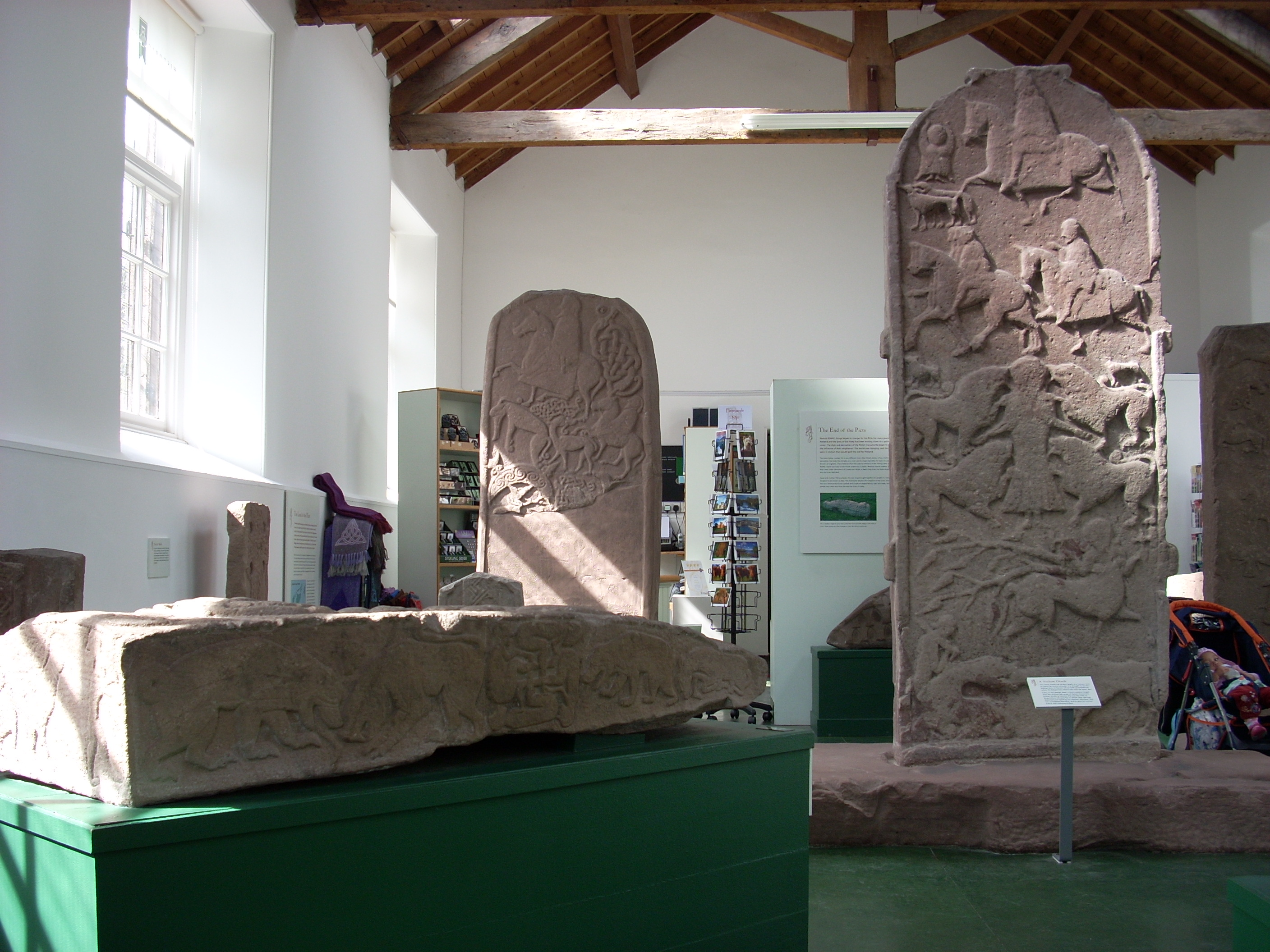 View of the Sculptured Stone Museum at Meigle, Scotland, displaying Pictish symbol stones from the 8th and 9th centuries AD.